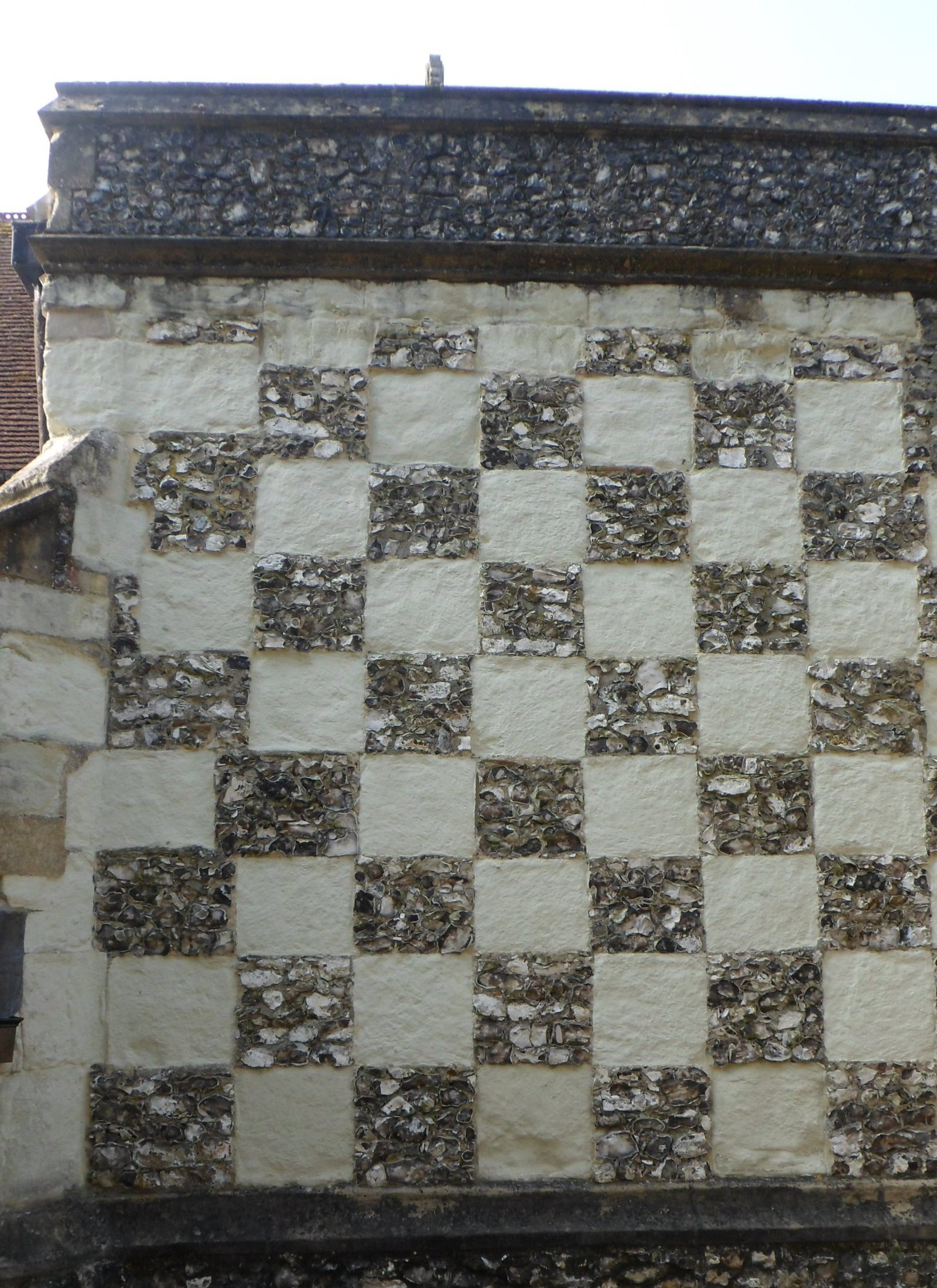 Part pf the chequered clunch and flint wall of the side chapel of St Michael's parish church, Old London Road, Mickleham, Surrey, England